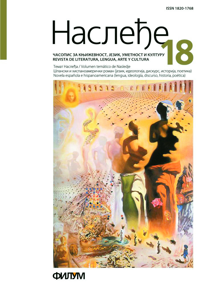 Cover of scientific journal Nasledje (Kragujevac), Kragujevac, Serbia